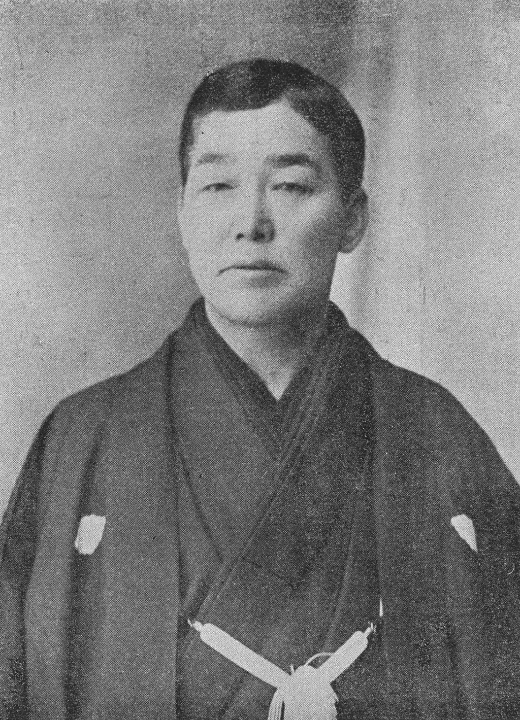 Portrait of Ito Tsurukichi (伊藤鶴吉, 1857 – 1913)